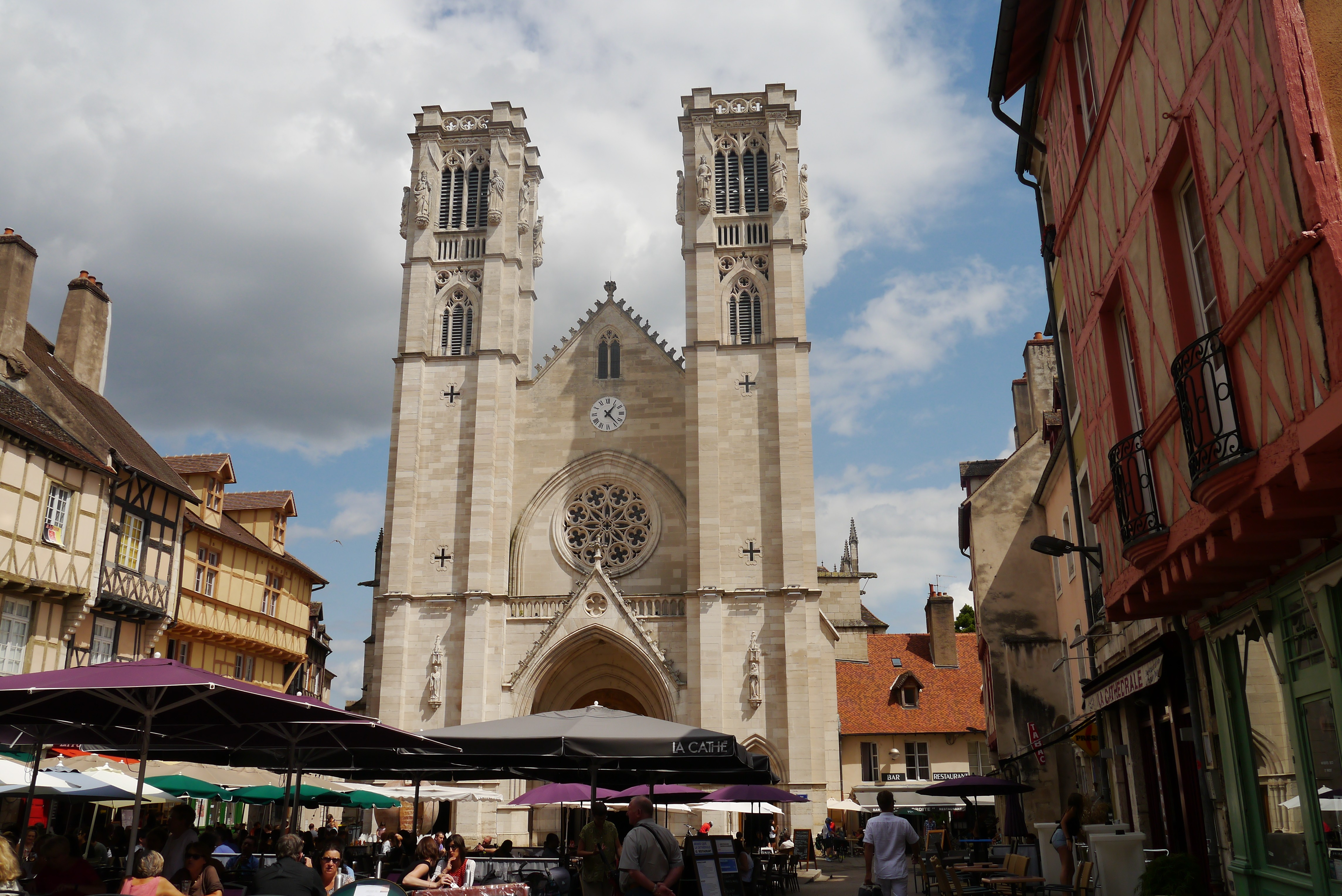 Cathédrale Saint-Vincent, Chalon-sur-Saône. .